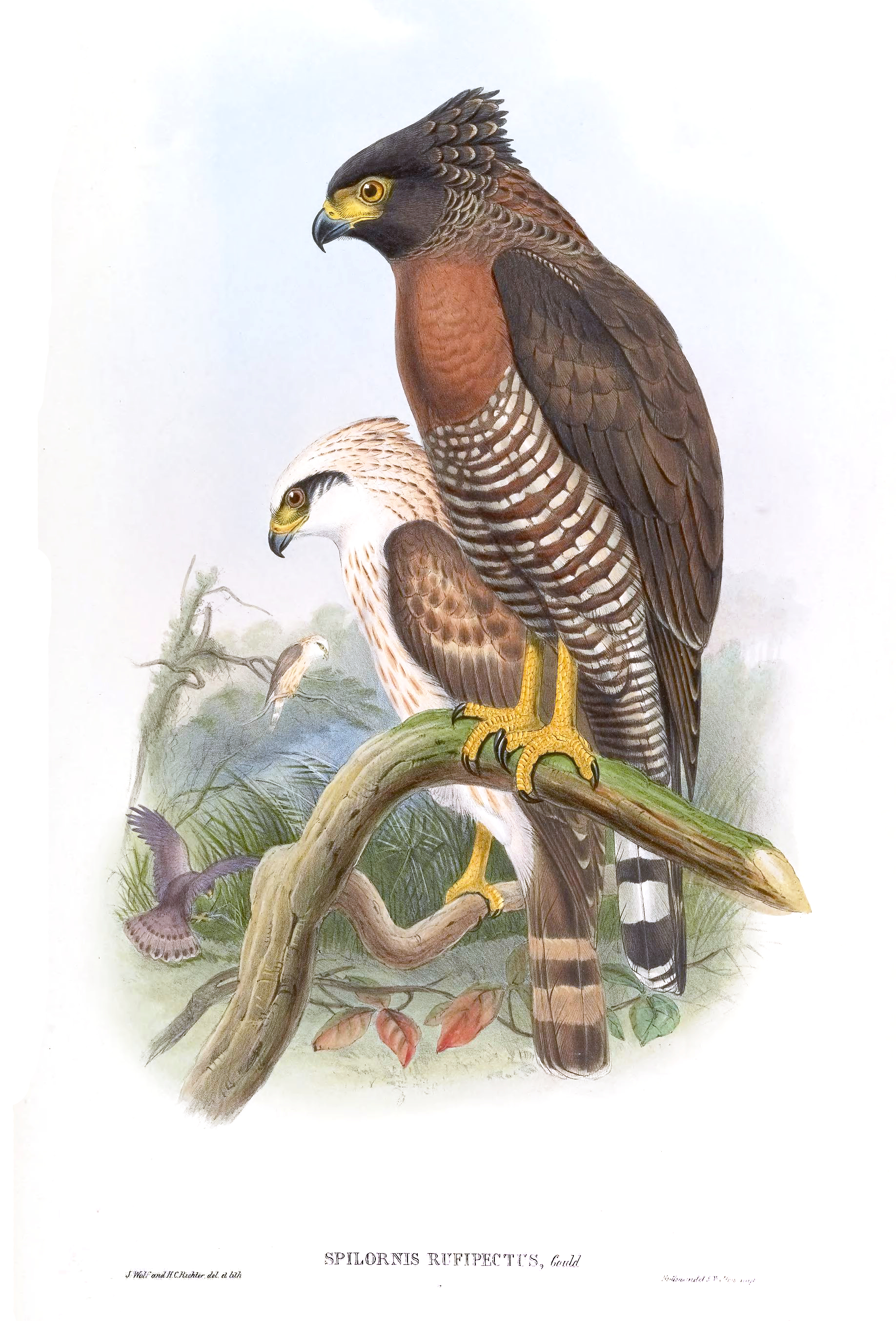 Sulawesi Serpent Eagle (Spilornis rufipectus)